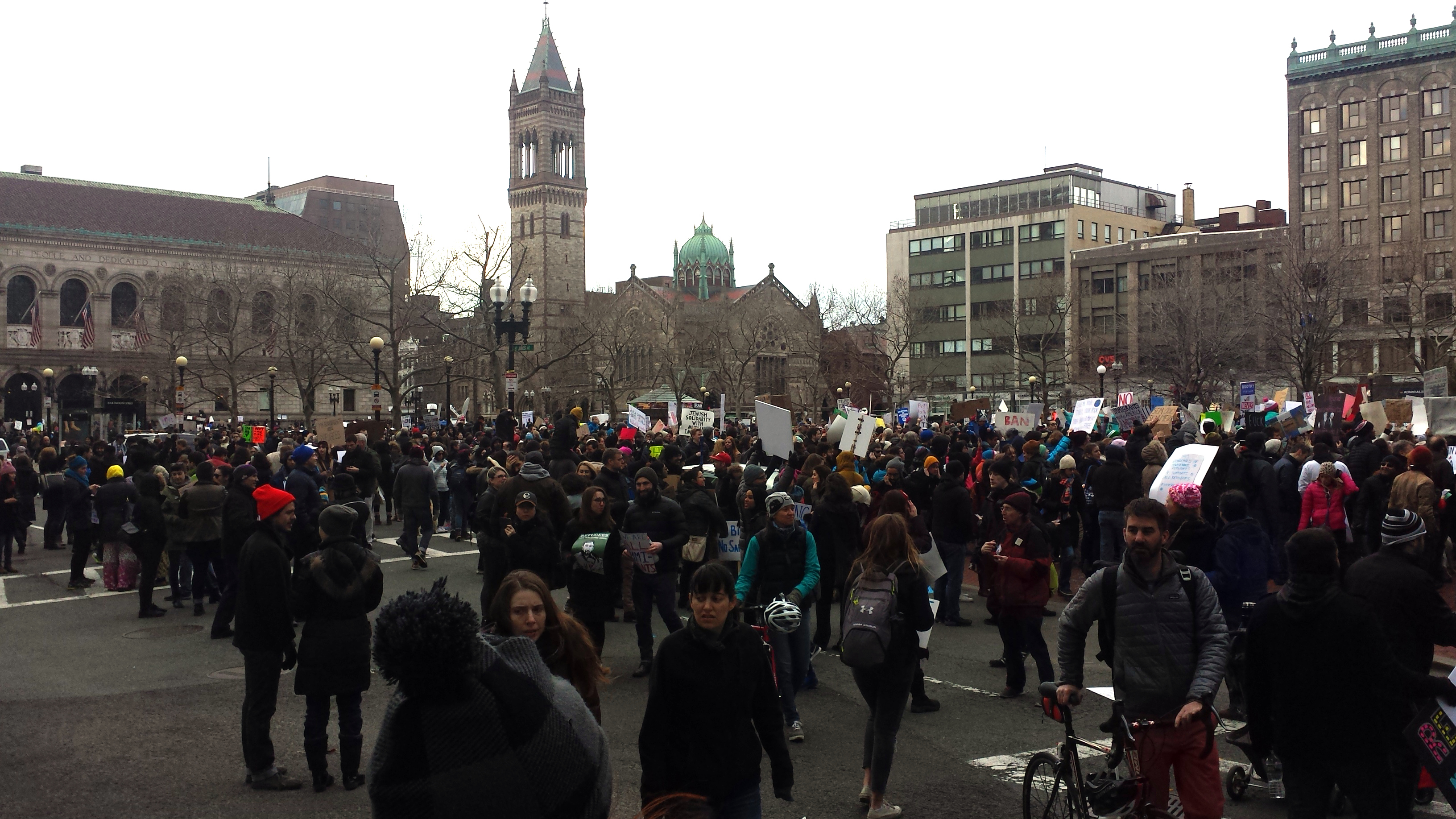 Protest in Copley Square, Boston, MA against Executive Order "Protecting the Nation from Foreign Terrorist Entry into the United States". Photograph taken at 3:14 PM, at the end of the 1–3pm event.